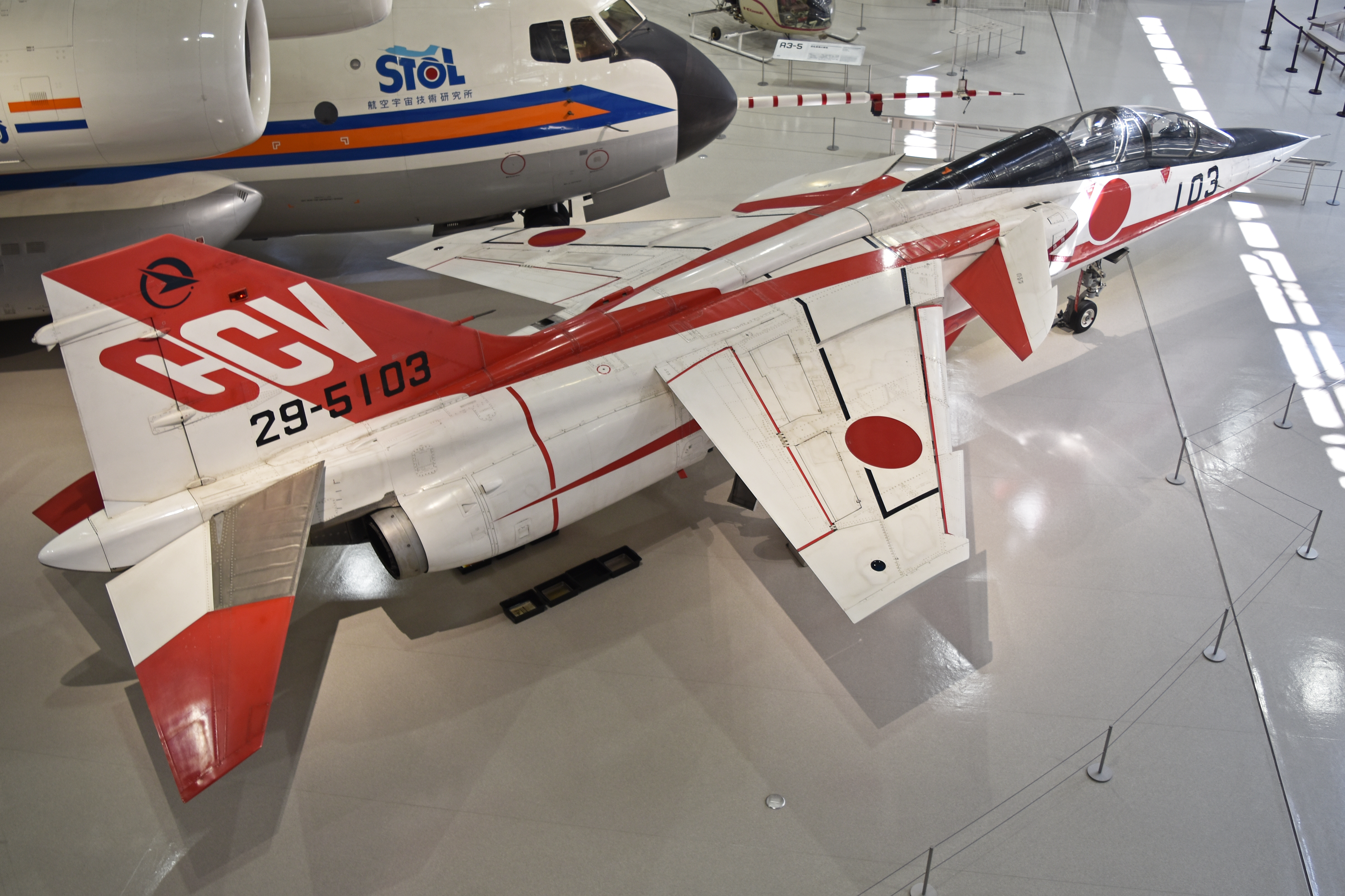 c/n 003 Built 1972 as the third prototype T-2. Later converted into the CCV (Control-Configured Vehicle) and used for computer controlled research. It was finally used for test-pilot training until retired in 2002. Kakamigahara Aerospace Science Museum Kakamigahara City, Gifu Prefecture, Japan 15th March 2019 The following info on the T2-CCV is from the fascinating j-hangarspace.jp website:- “First delivered on July 6, 1972, the third prototype T-2 trainer was naturally initially assigned to the type’s test programme from Gifu AB and then, from April 6, 1982, to the JASDF Air Proving Wing (APW). Converted to investigate flight stability achieved by computer control, the data from which would later be utilized in the development of the Mitsubishi F-2, the single-seat T-2 CCV was first flown from Nagoya on August 9, 1983, and again, this time with a fly-by-wire system installed and its distinctive canard wings fitted, on February 16, 1984. At the end of the two-year joint TRDI*-APW programme, during which 137 flights were completed, the aircraft was utilized for additional research and test pilot training at Gifu, where it remained in store for airing on base open days following its withdrawal from use on October 31, 2002. Reportedly a target for the museum from the start, arranging the loan of an aircraft that is certified for preservation by the JASDF took time and patience on the part of the Kakagamihara City authorities, but those efforts were eventually rewarded. (*) The Technical Research and Development Institute of the then Japan Defense Agency, now the Acquisition, Technology and Logistics Agency under the Ministry of Defense”